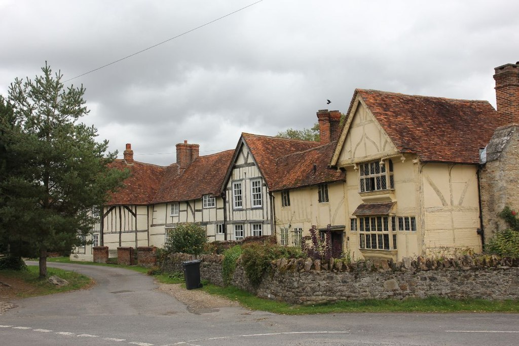 Priory Cottages, 123 and 127 the Causeway, Steventon, Oxfordshire (formerly Berkshire)